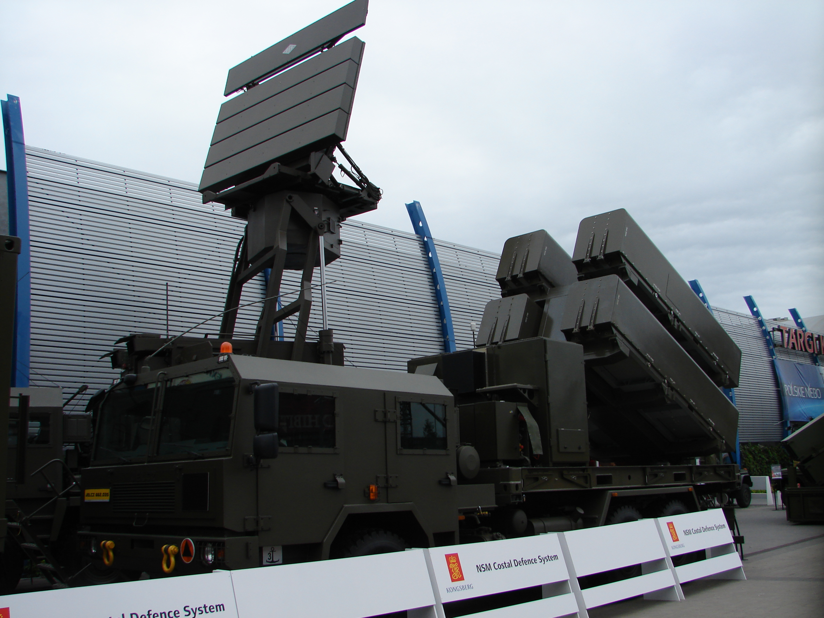 Polish Navy's NSM launcher with 4 missile containers, on Jelcz P662D43 military truck and three-dimensional radar TRS-15M Odra (NUR-15) in the background.